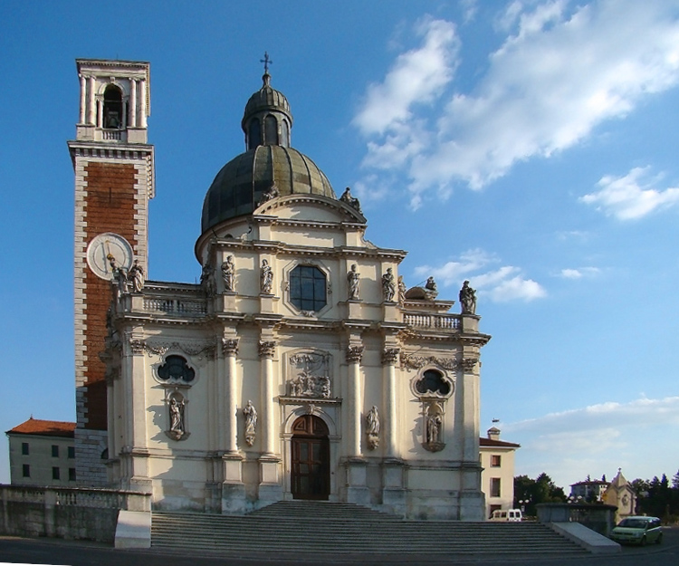 Monte Berico Basilica, Vicenza, Veneto, Italy.